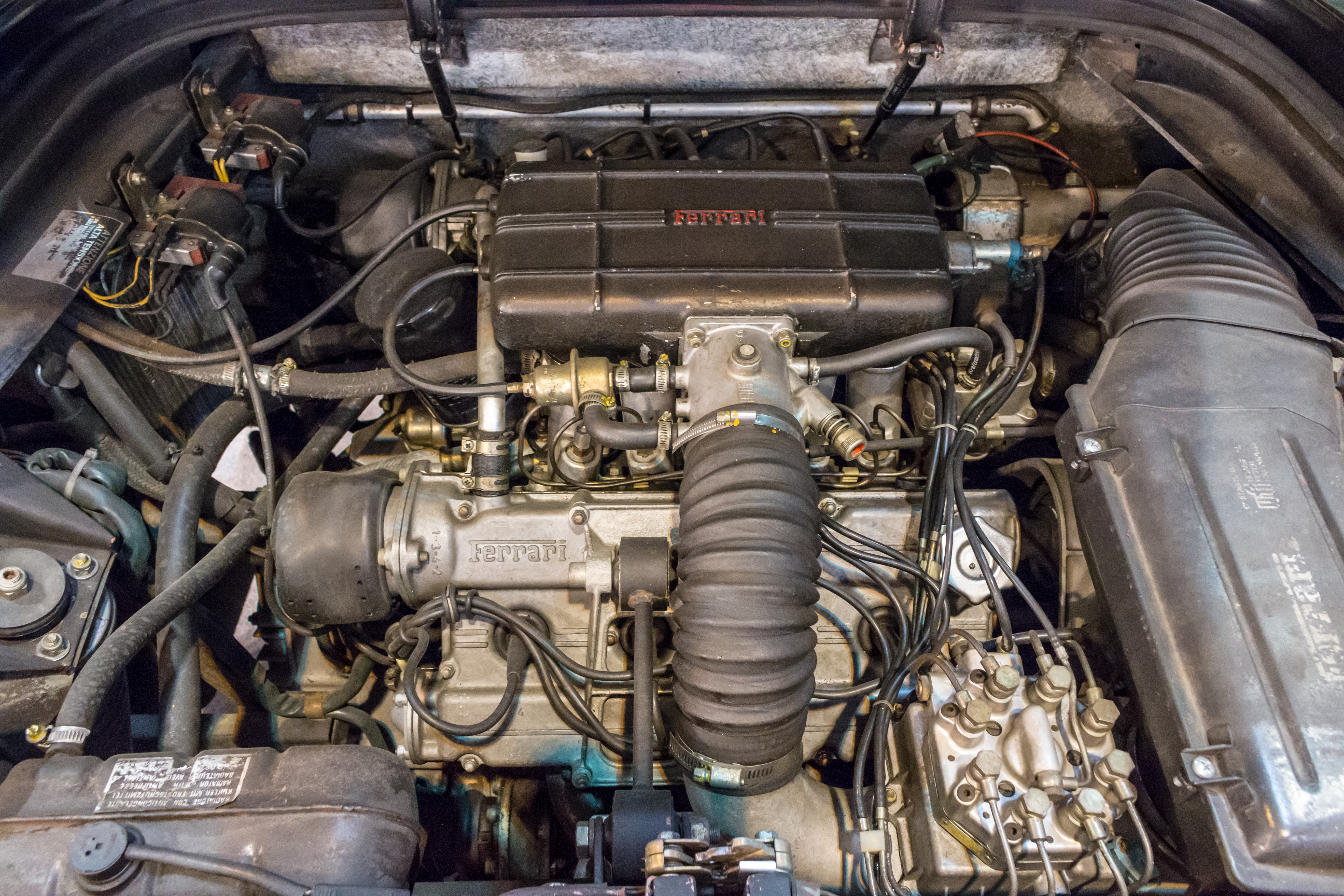 Ferrari type F106B engine in a Ferrari Mondial 8 at Techno-Classica 2018, Essen